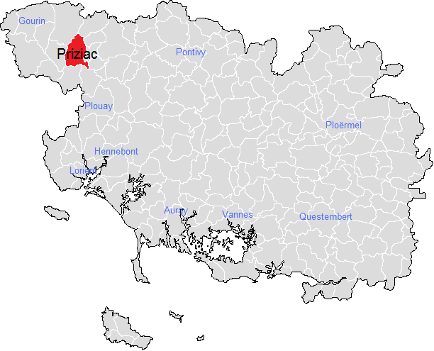 placement Priziac in departement Morbihan